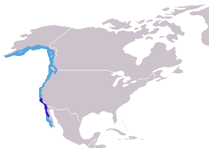 Distribution of the northern elephant seal (dark blue: breeding colonies; light blue: non-breeding individuals)